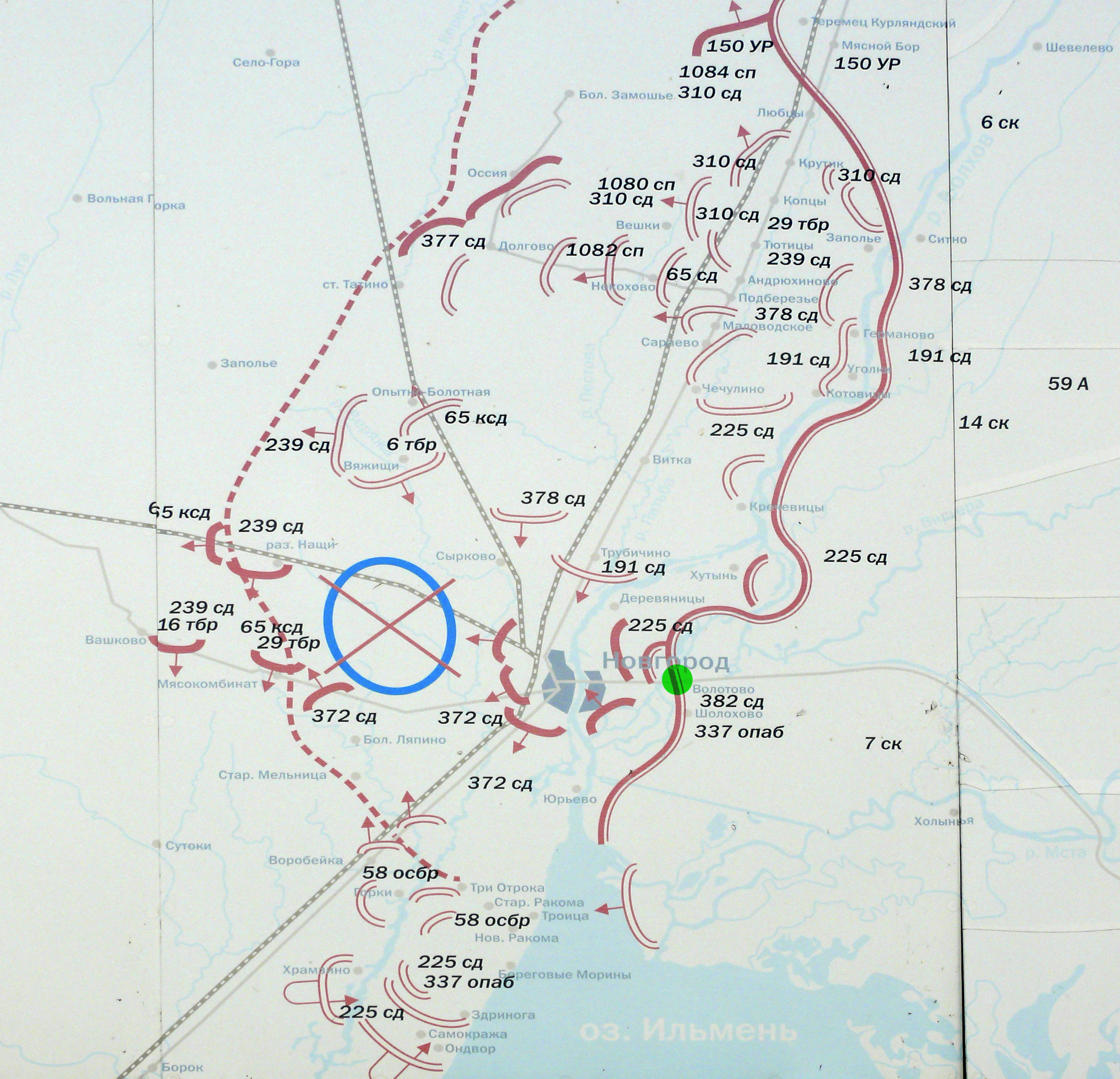 Map of the Volkhov Front fighting in winter 1944. Veliky Novgorod, Russia